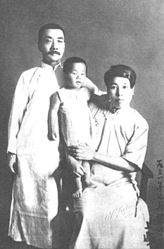 Lu Xun with Xu Guanping and their son, Haiying